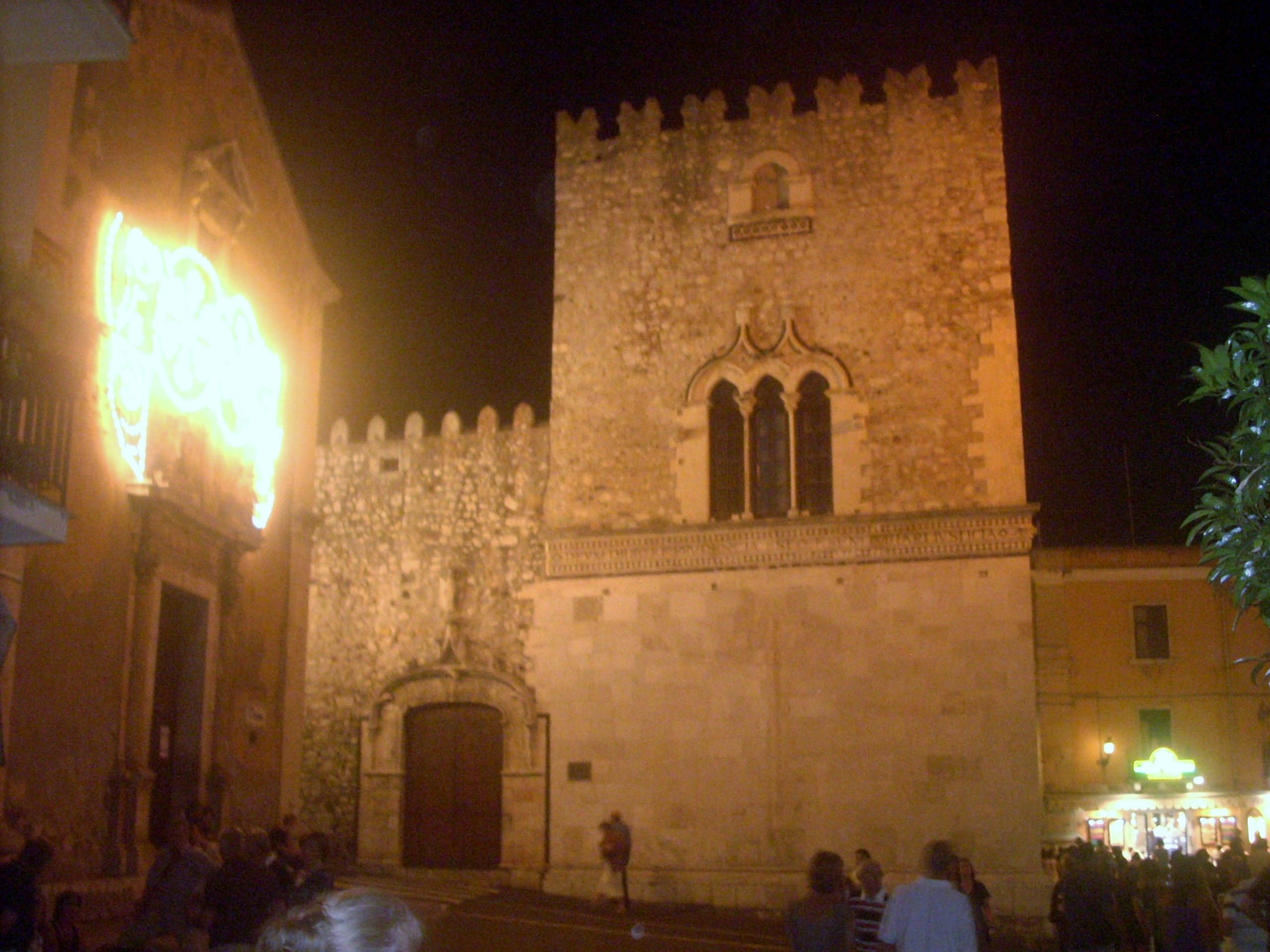 Exterior of Corvaja Palace, Taormina